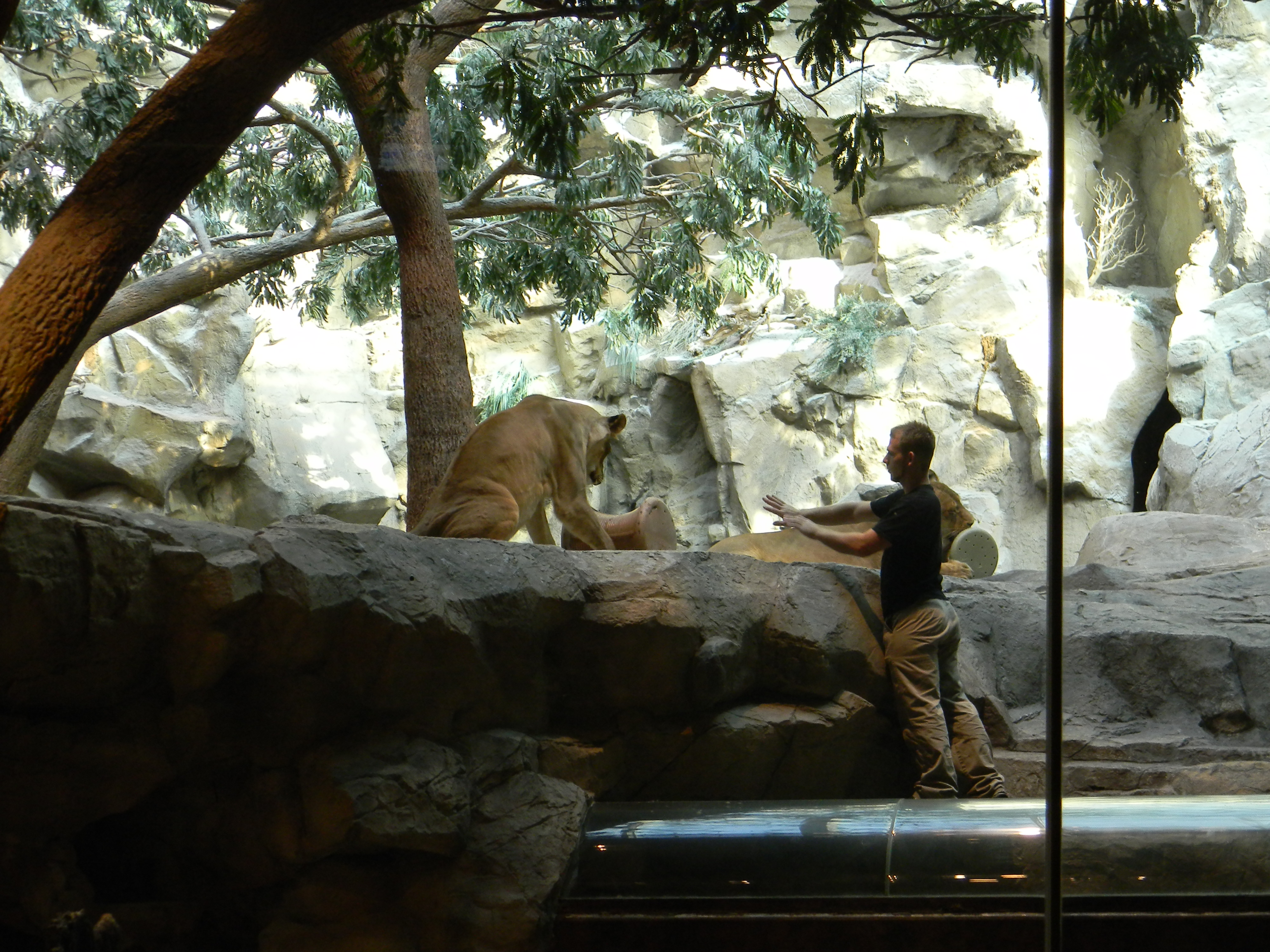 MGM Grand hotel (Las Vegas) Casino-Lions Habitat